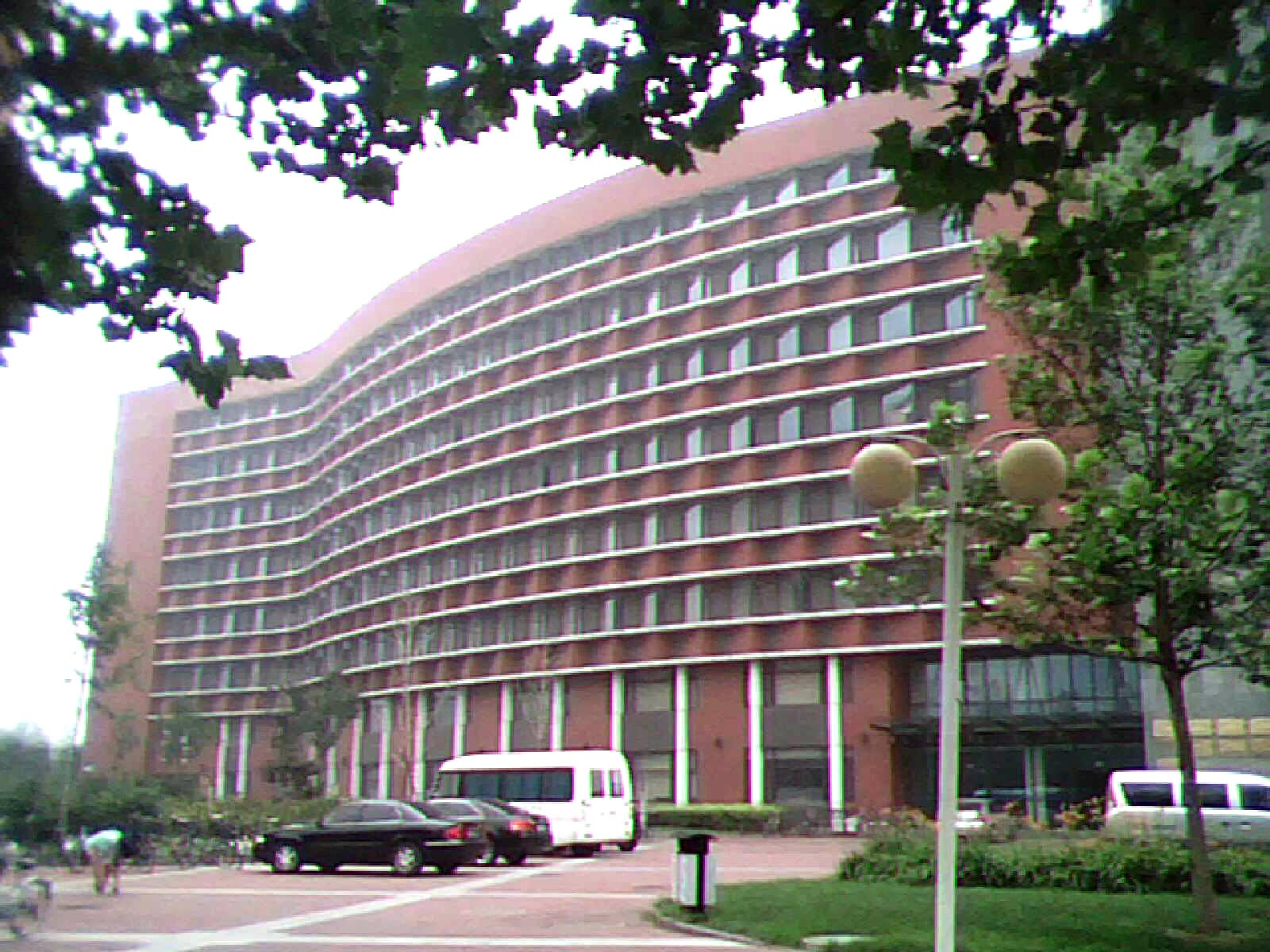 Beijing University of Technology campus